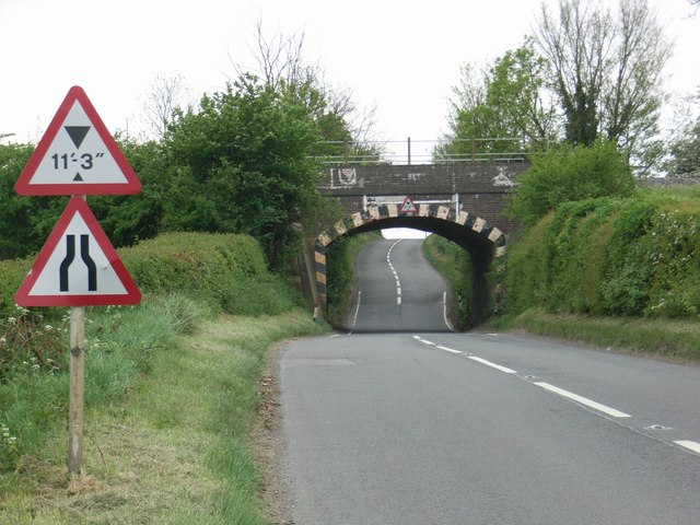 Railway bridge The Oxford to Worcester railway line crosses over the B4632.